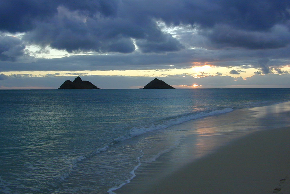 Nā Mokulua (twin islets) off Lanikai, Oahu, Hawaiian Islands